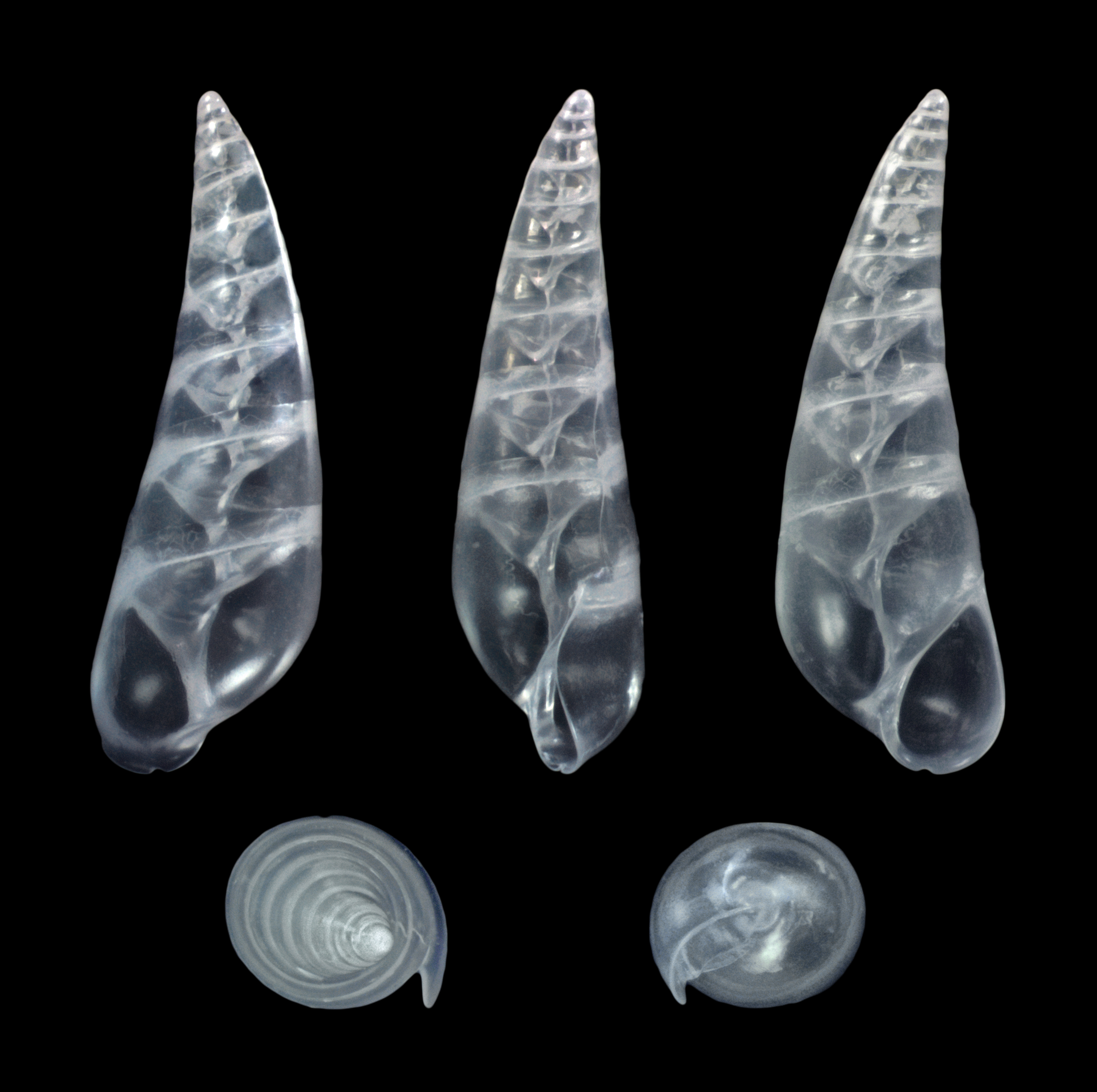 Vitreolina philippi (de Rayneval & Ponzi, 1854); length 0.27 cm; Originating from Mallorca, Spain; Shell of own collection, therefore not geocoded.